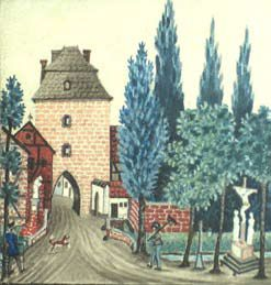 Eine Aufzeichnung des ehemaligen Kölner Tors in Bergheim